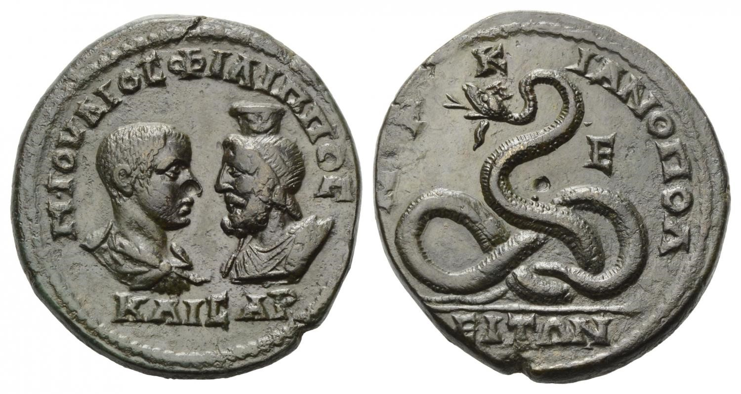 Bronze coin called Pentassarion issued under Roman emperor Philip II. as Caesar (AD 244-247) in Marcianopolis in the Roman Province MOESIA INFERIOR. Obv: Bareheaded, draped, and cuirassed bust of Philip and draped bust of Serapis, wearing calathus, facing one another; Rev: Serpent (Glycon) coiled left, with beard